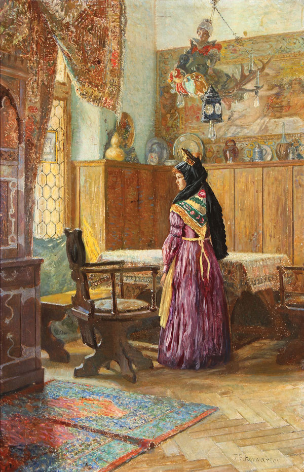 Interior with a Woman in Native Costume